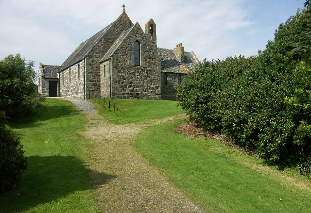 Gigha and Cara Parish Church, Gigha, Inner Hebrides, Scotland.